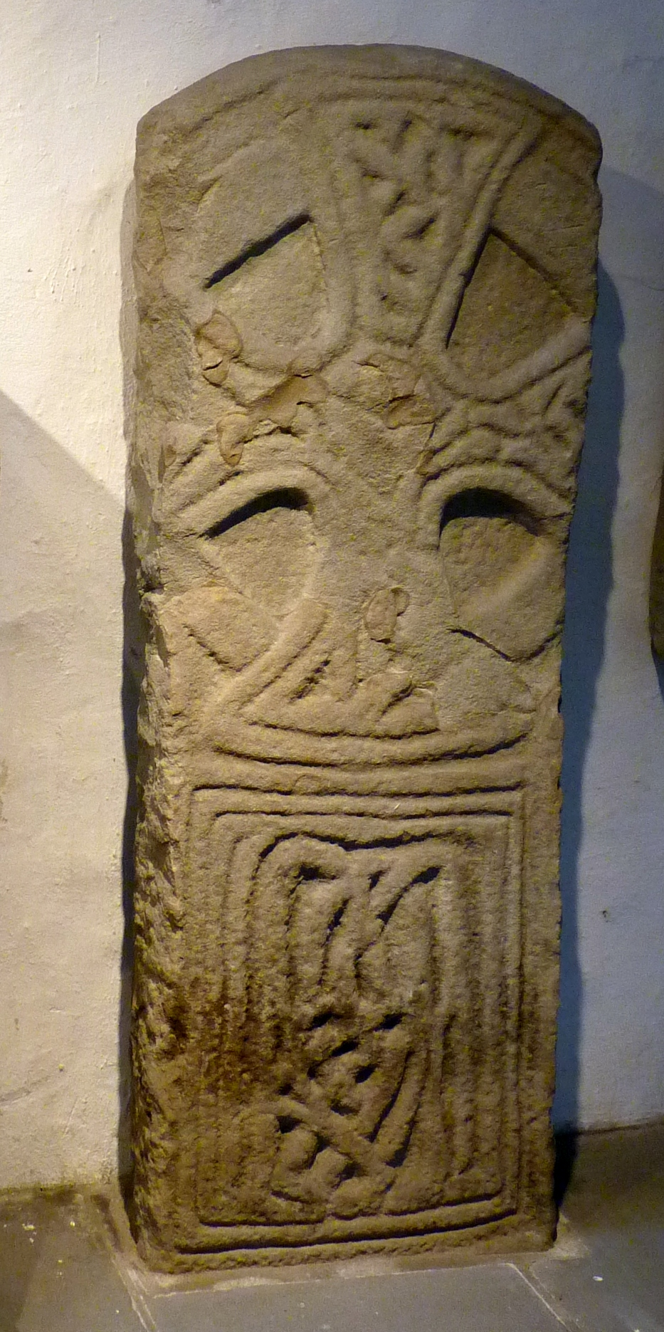 11th C, slab cross from Margam. It is now in the Margam Stones Museum nr Port Talbot.